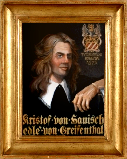 Family picture